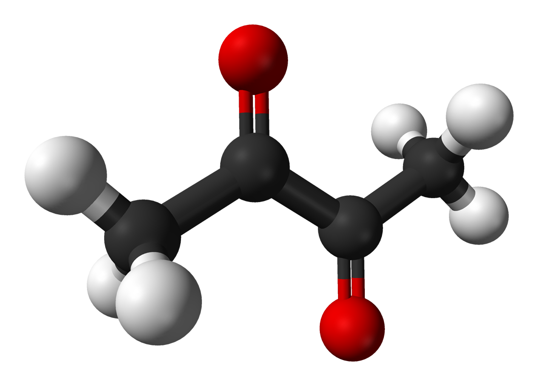 Ball-and-stick model of the diacetyl molecule